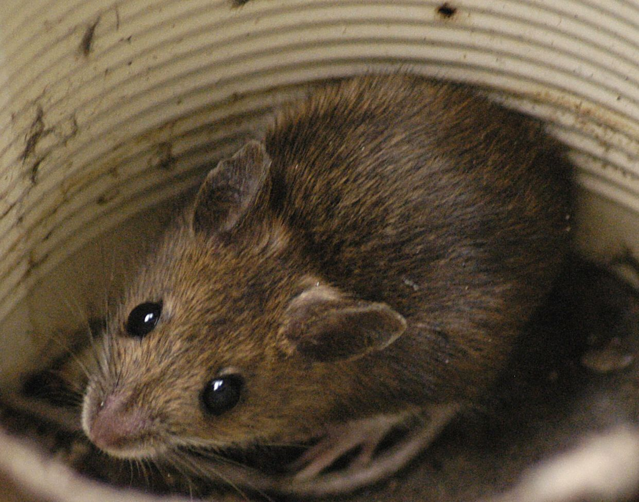 Wood mouse (Apodemus sylvaticus) which I had to save with a tin *